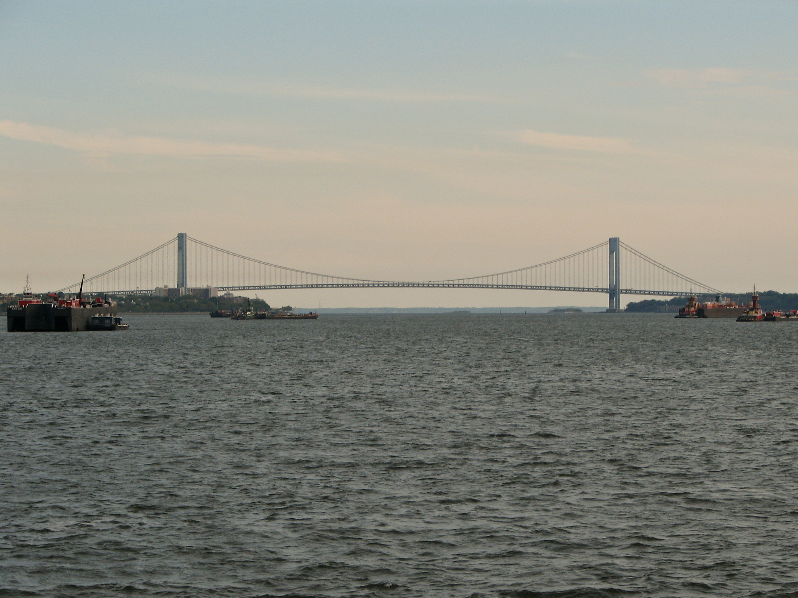 New York City - Verrazano Bridge